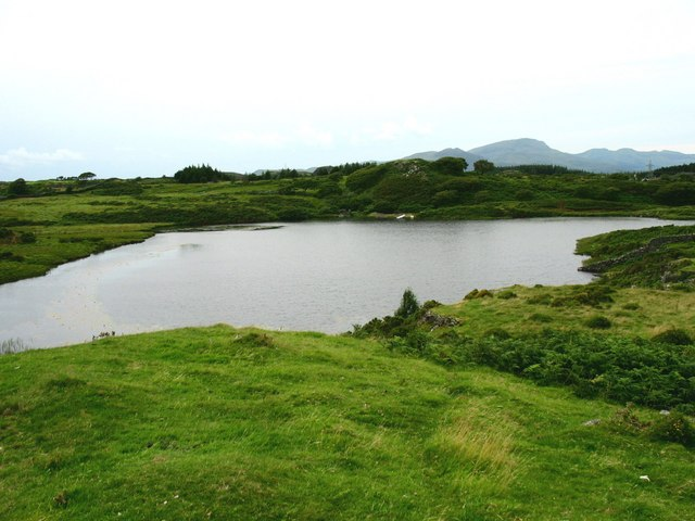 Llyn Llennyrch